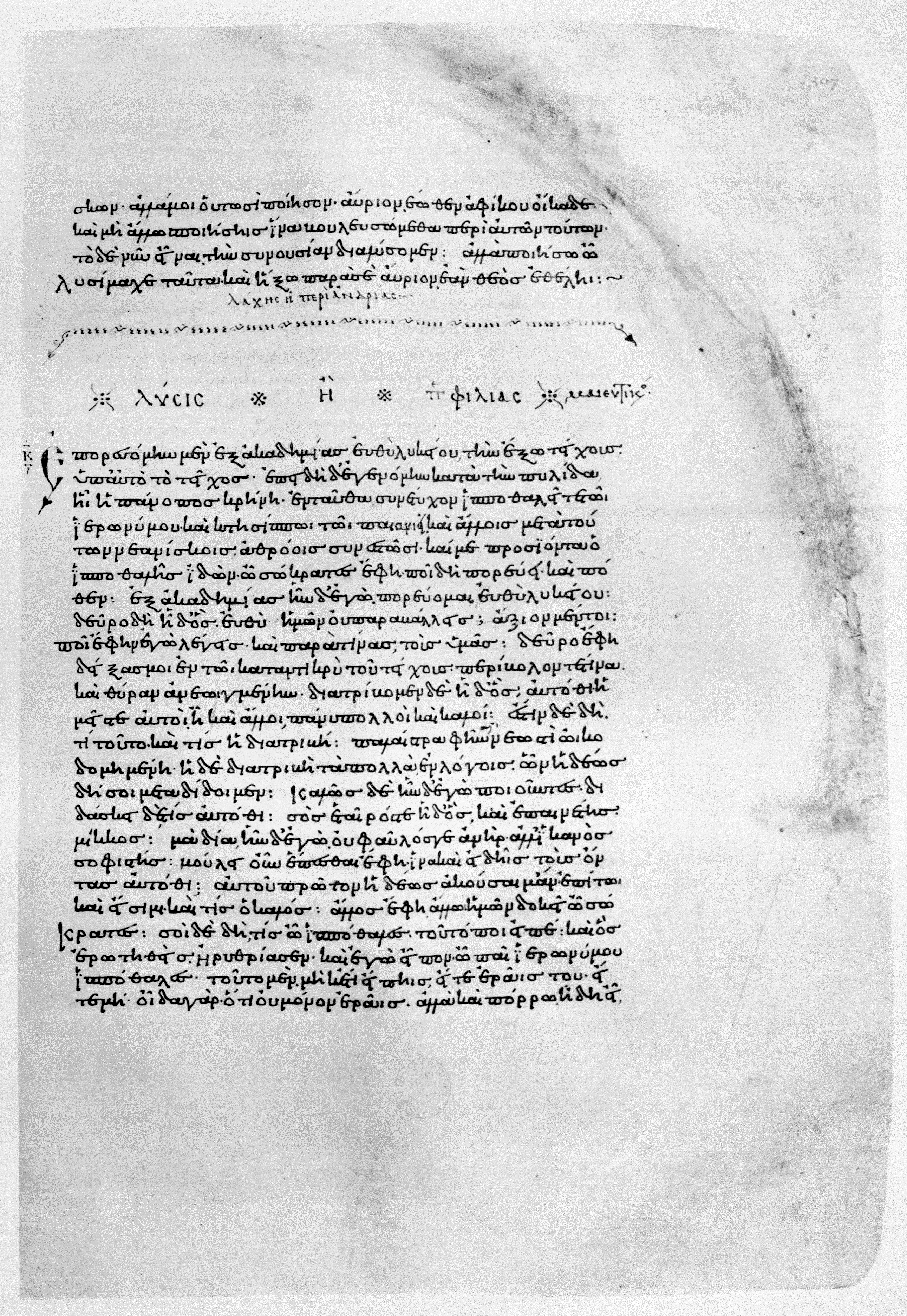 Page of the Codex Oxoniensis Clarkianus 39 (Clarke Plato). Dialogue Lysis.